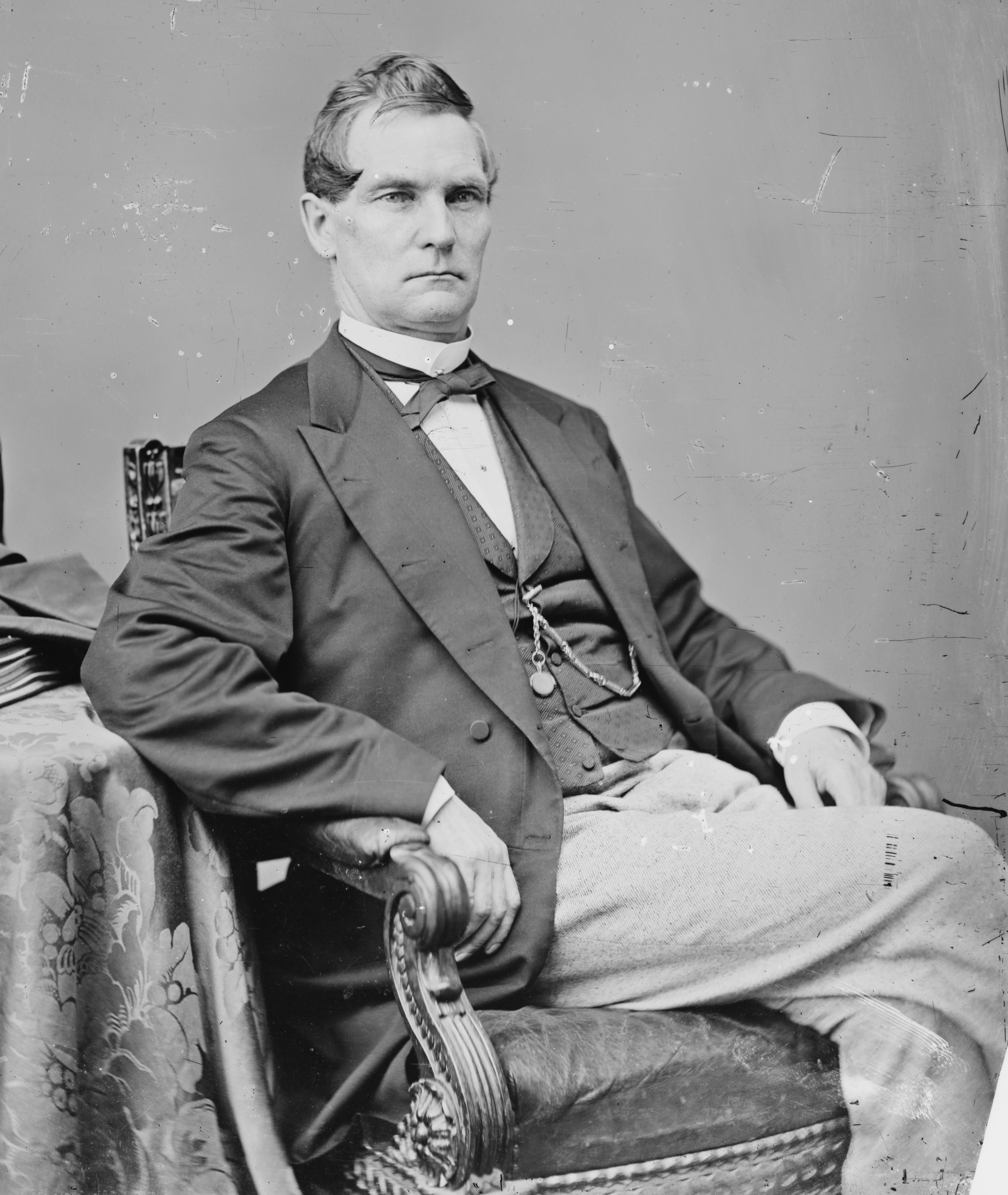 Portrait of William A. Wheeler, 19th Vice President of the United States.